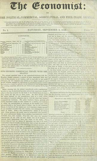 Front page of the first issue of The Economist, 2 September 1843